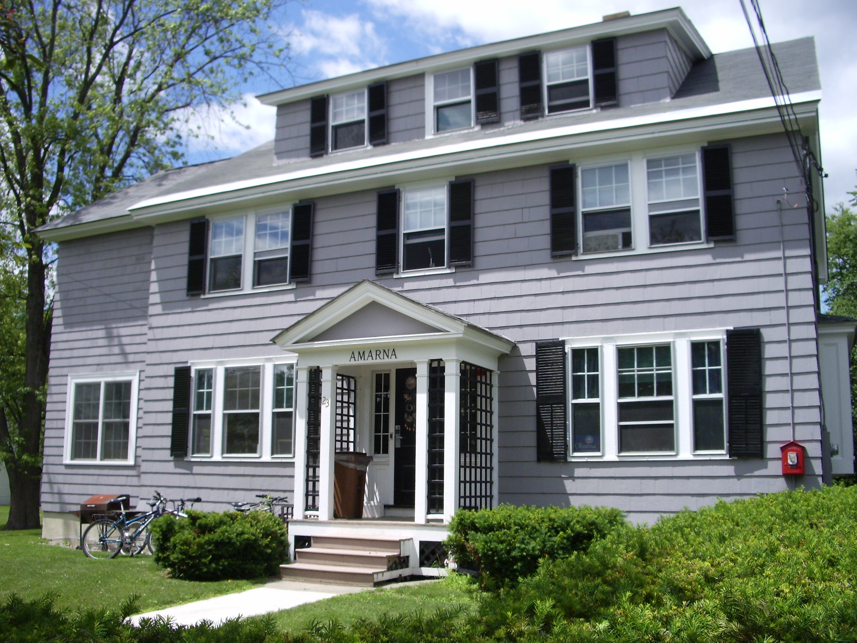 Photograph of Amarna at the campus of Dartmouth College in Hanover, New Hampshire.